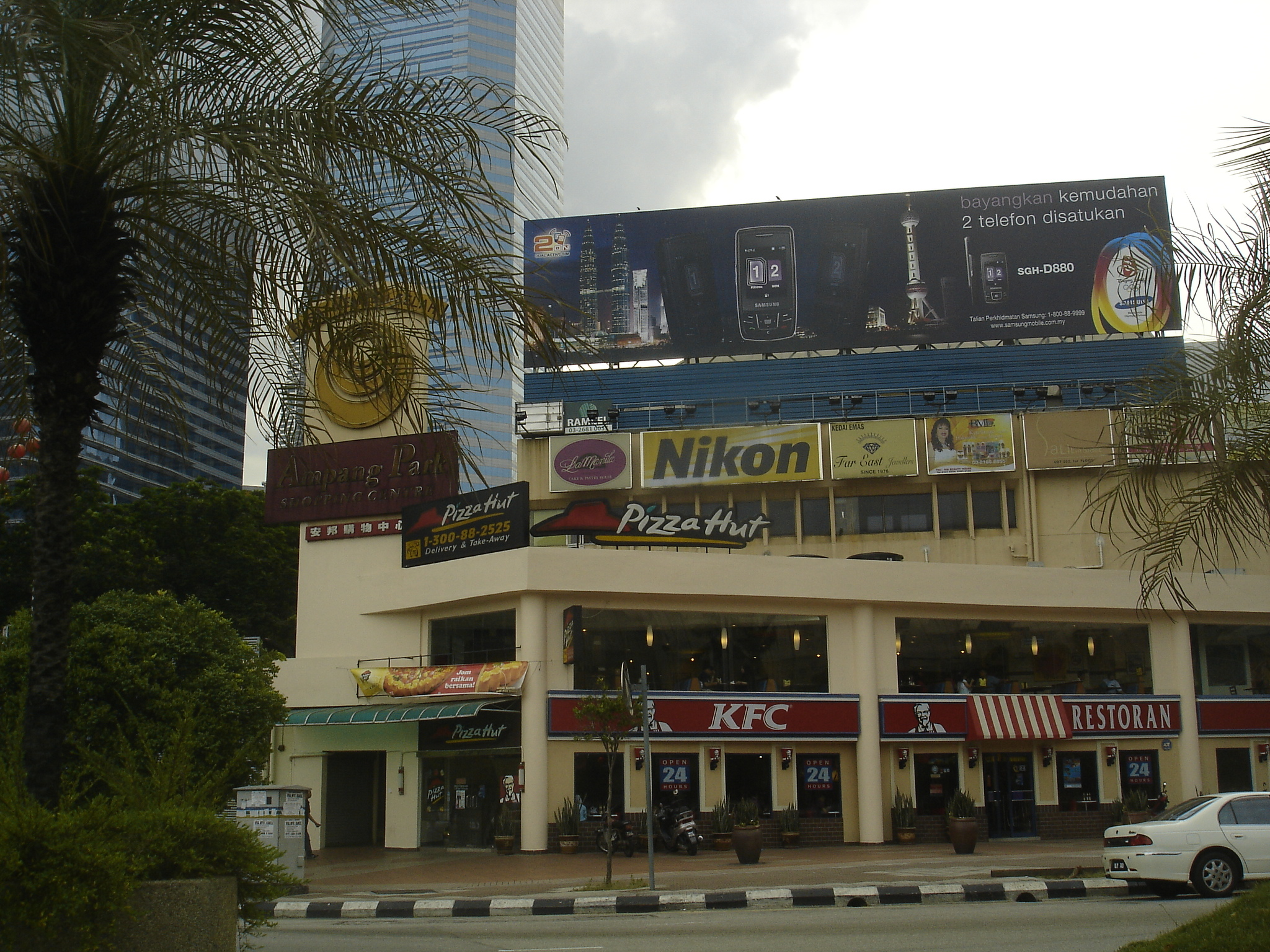 Ampang Park Shopping Center at the corner of Jalan Ampang and Jalan Tun Razak. One the first shopping complexes in Kuala Lumpur.